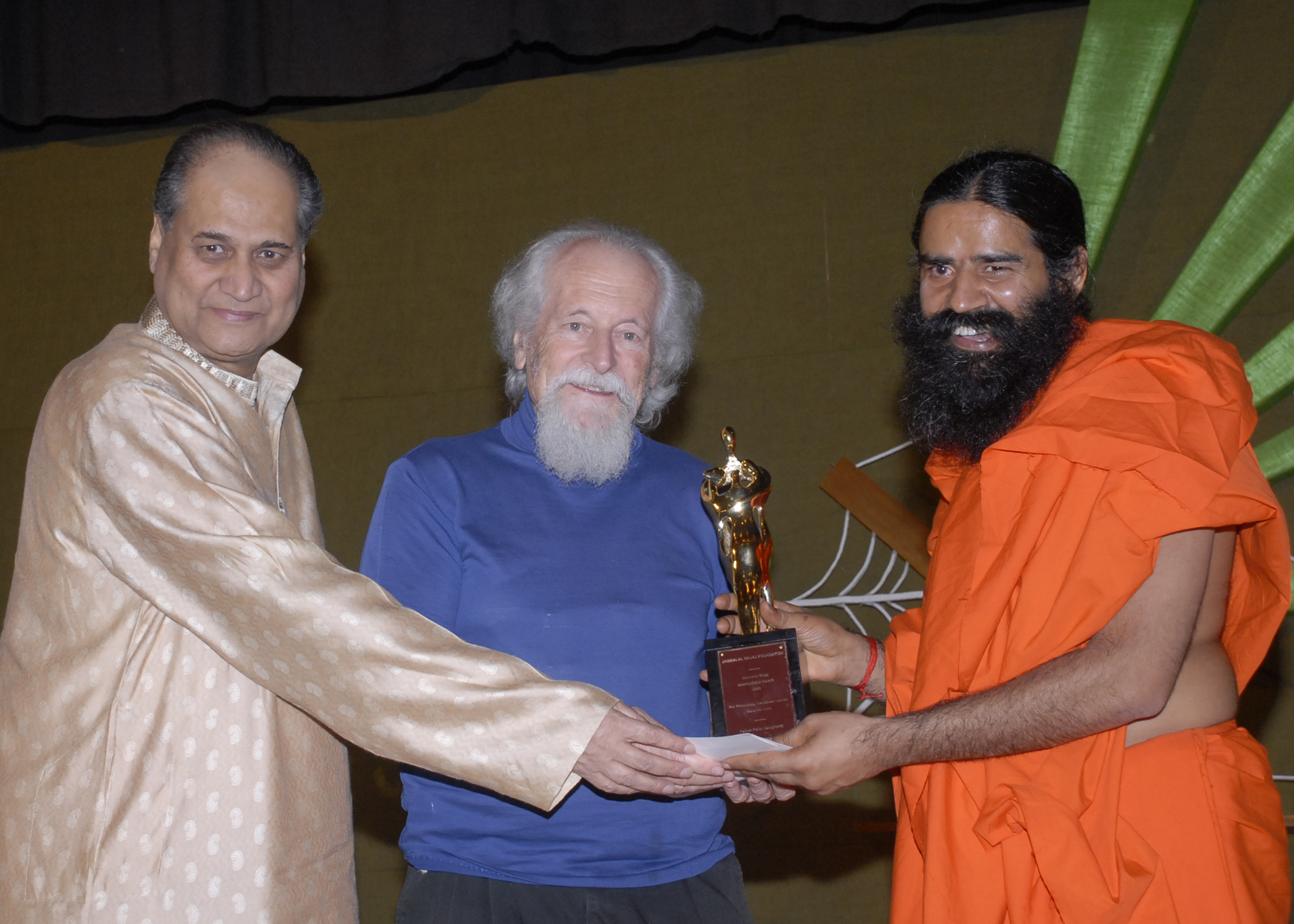 In this photo, Rev. Fr. Charles Peter Dougherty of Meta Peace Team smiles as he receives the 2009 Jamnalal Bajaj International Award for promoting Gandhian values outside India.